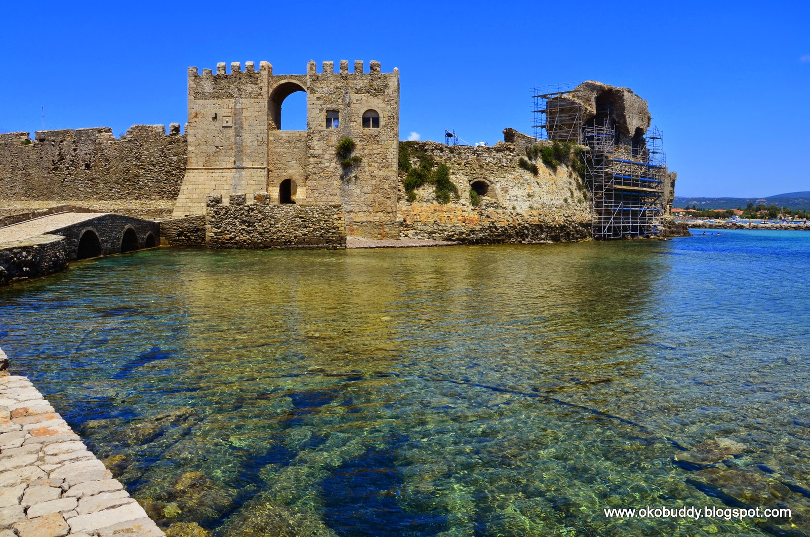 Castle of Methoni